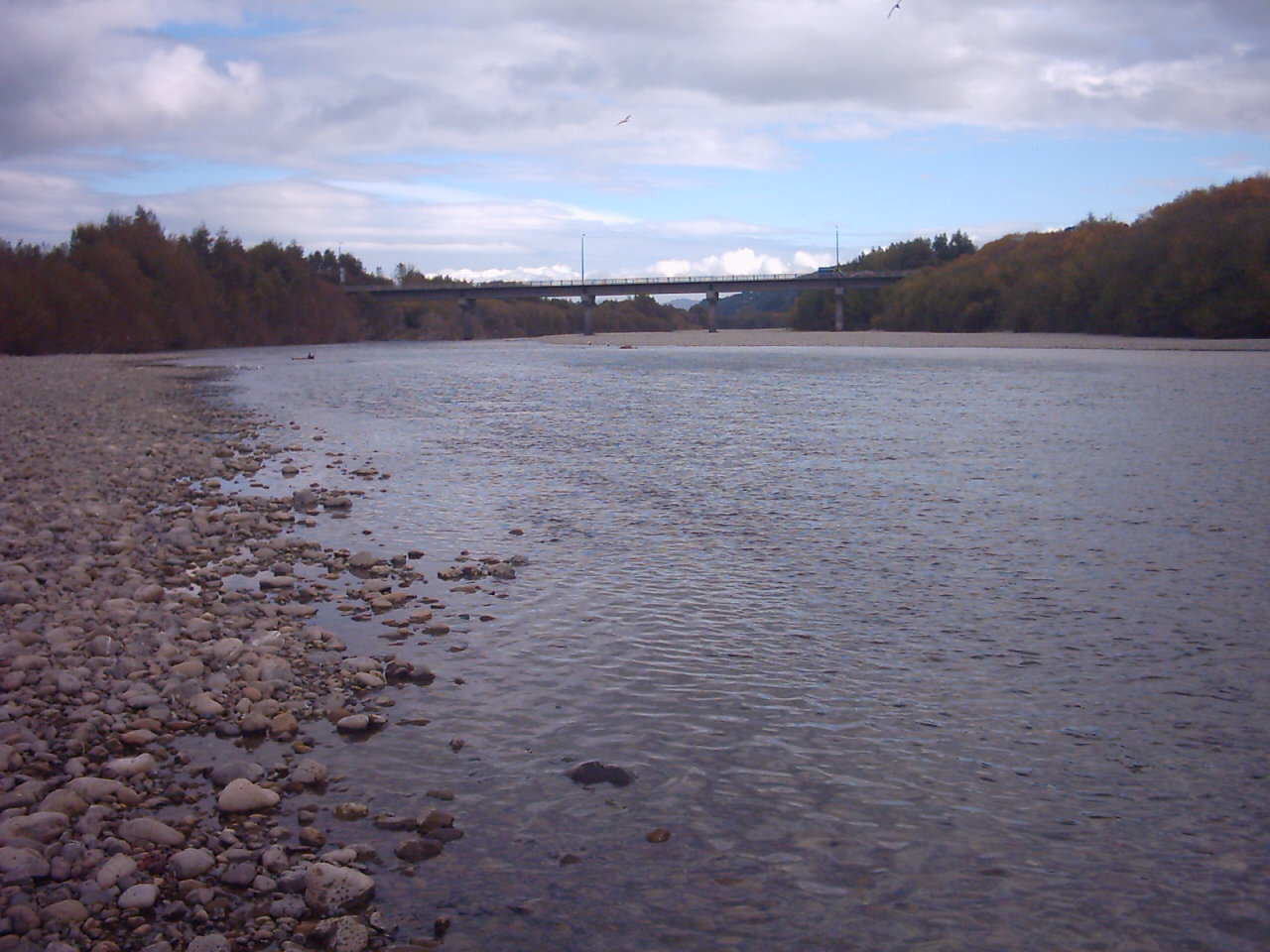 Pic of the Hutt River in New Zealand looking downstream near Avalon Park. Taken from ground level so not very good. This picture will do until a replacement is available.